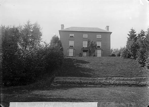 1 negative : glass, dry plate, b&w ; 12 x 16.5 cm.